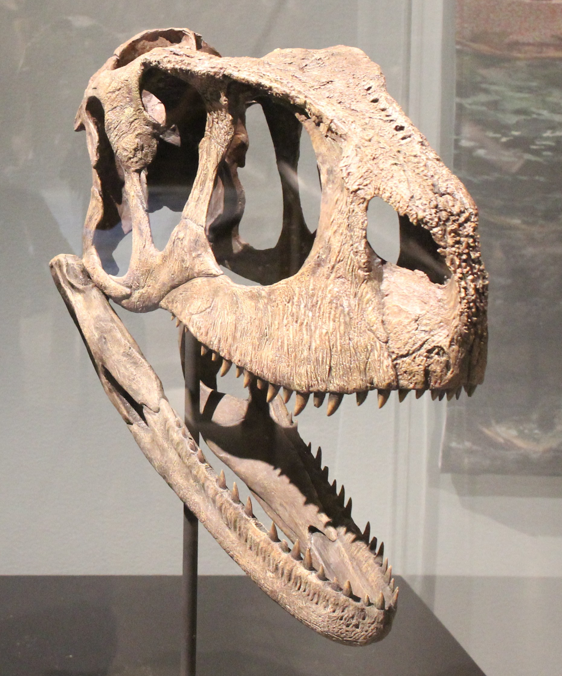 Taken at the National Geographic Museum Spinosaurus Exhibit. Photo by